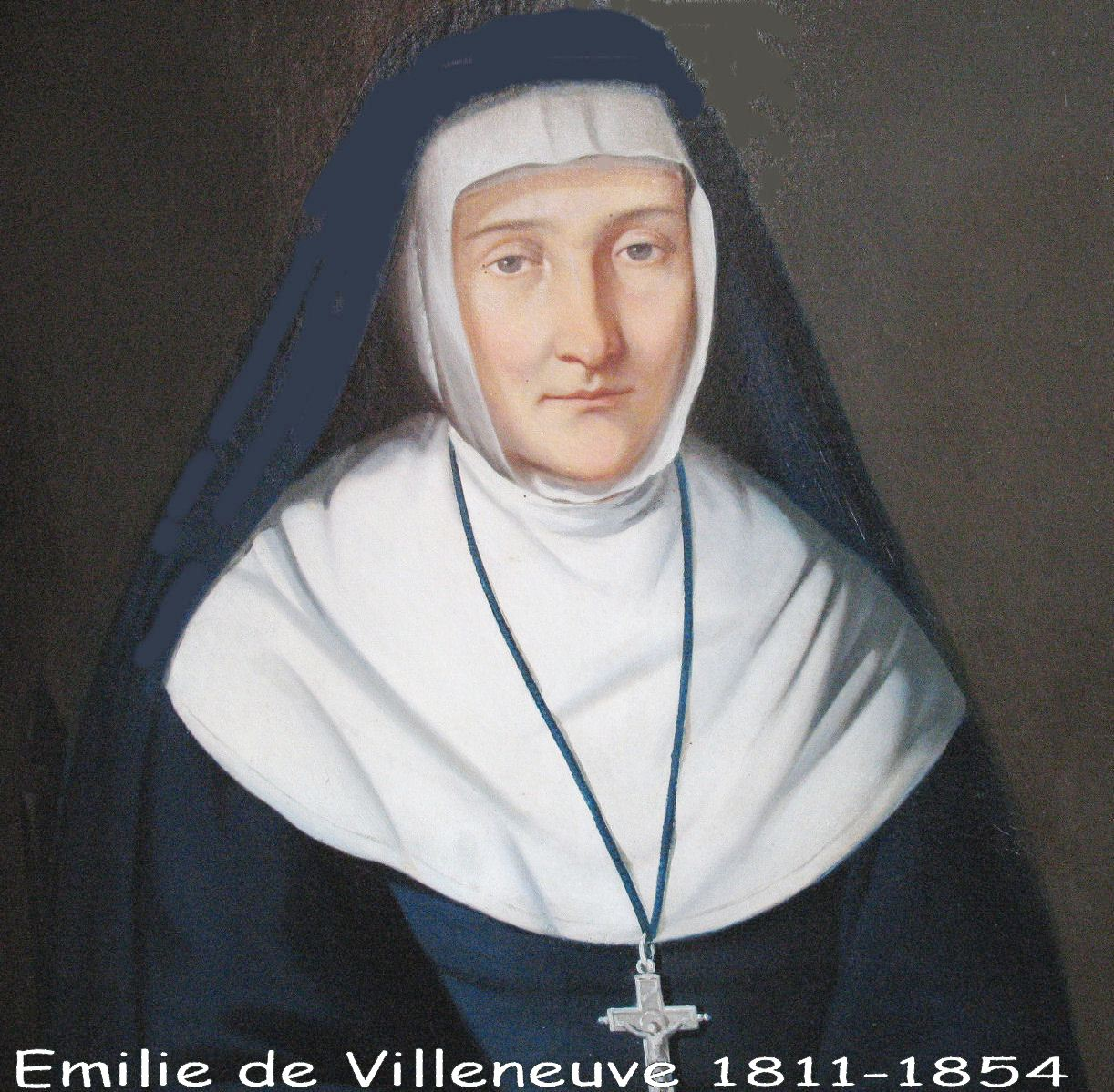 Photo of Jeanne Emilie de Villeneuve